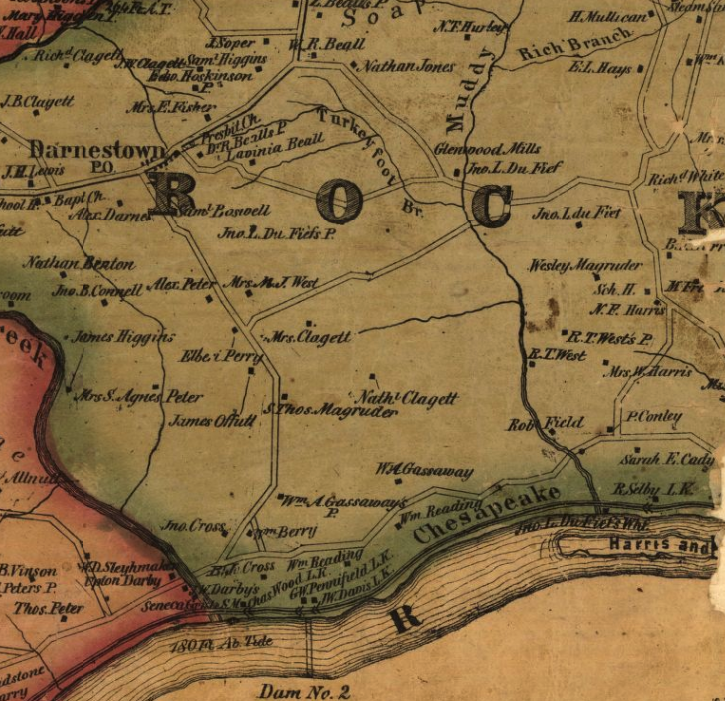 Portion of Montgomery County, Maryland, map with Lock 22 (Selby) and Lock 23 (Pennifield) of C&O Canal in 1865 at bottom.